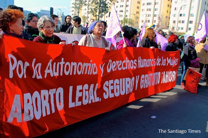 Photo by Ashoka Jegroo / The Santiago Times